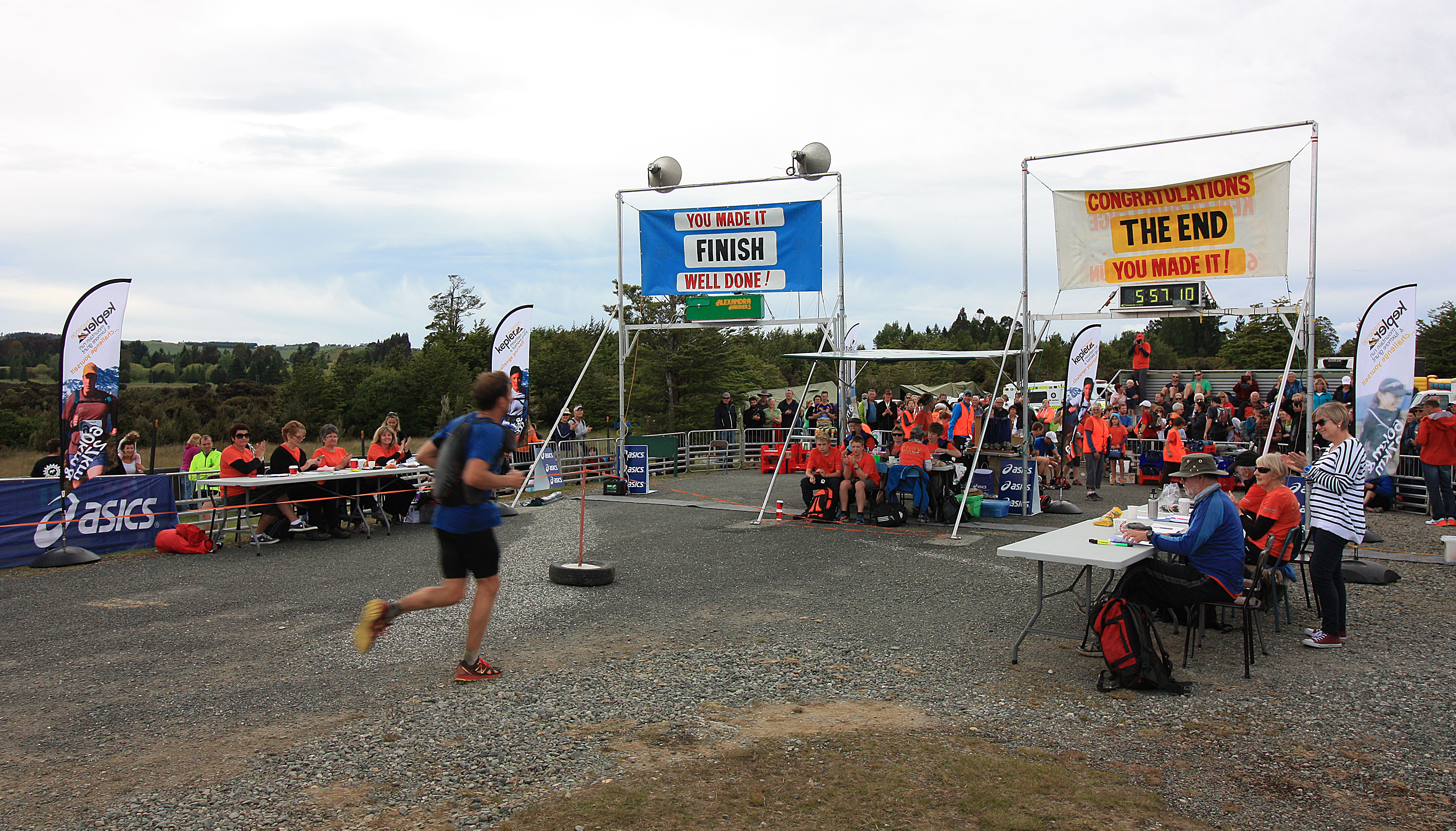 Kepler Challenge and Luxmore Grunt finish line at the control gates of the Kepler Track in Te Anau, New Zealand. An annual event this is from 2014.